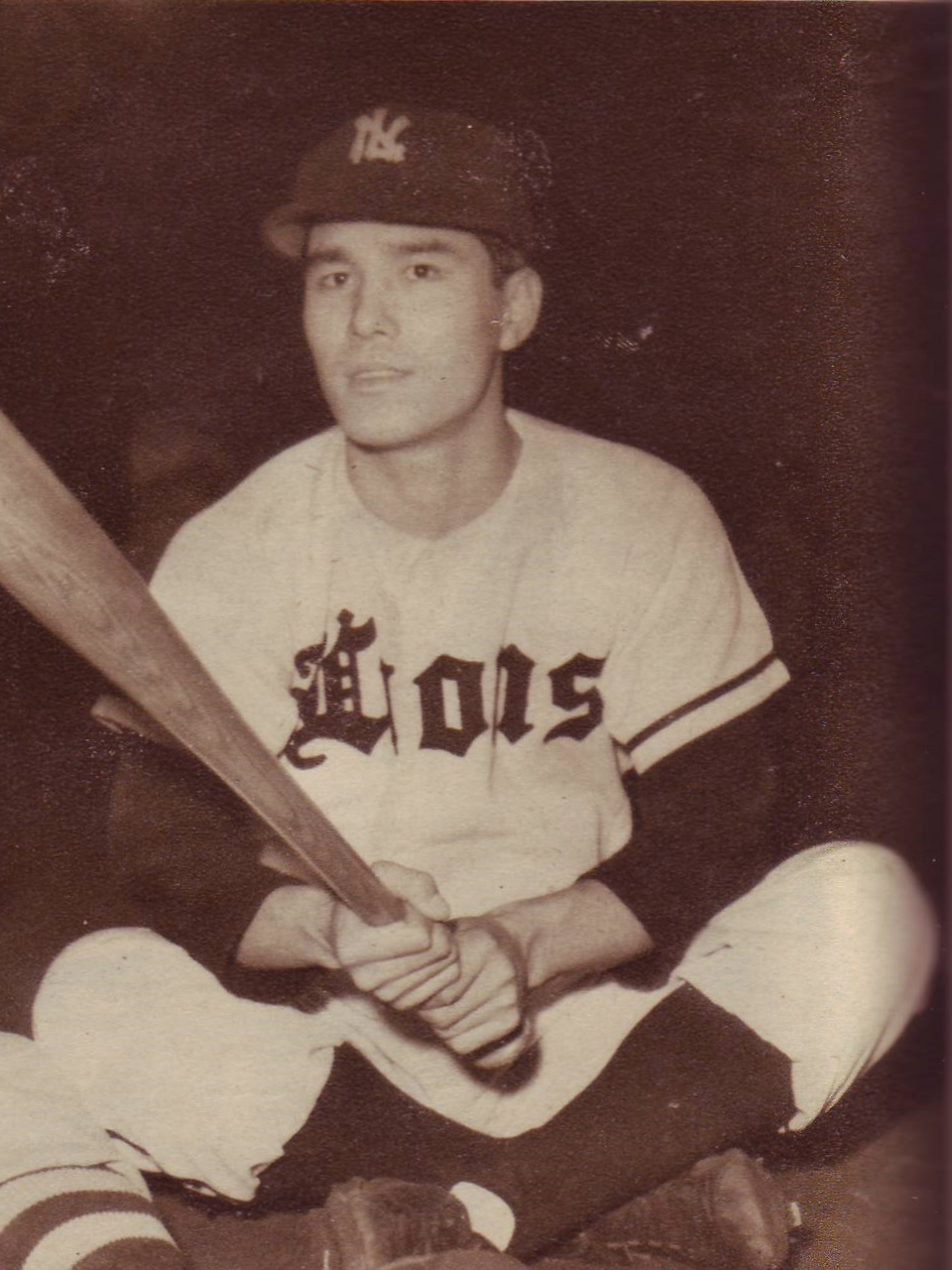 Yasumitsu Toyoda. taken in 1956.